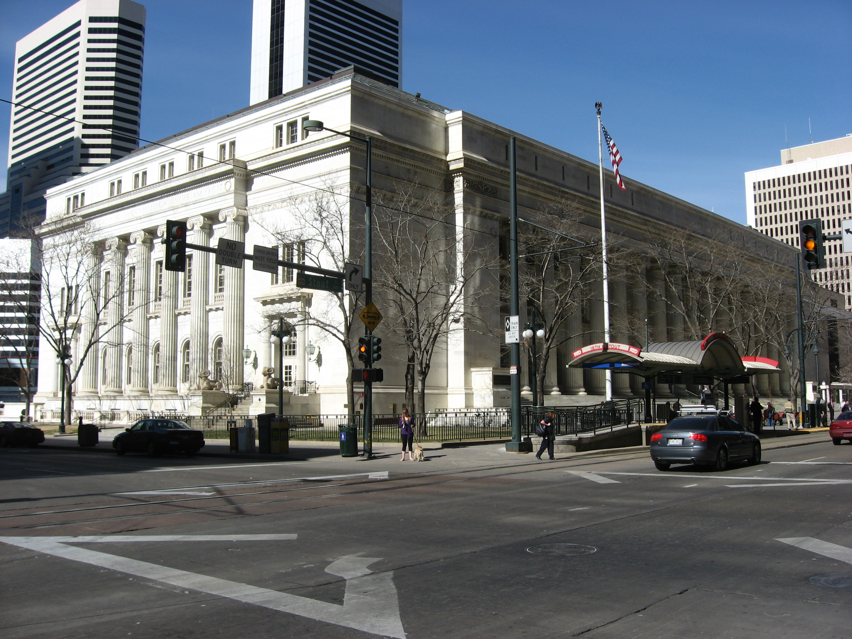 The U.S. Post Office and Federal Building in Denver, Colorado, United States, which occupies the block surrounded by Stout, Champa, Eighteenth, and Nineteenth Streets. Built in 1916, it is listed on the National Register of Historic Places.